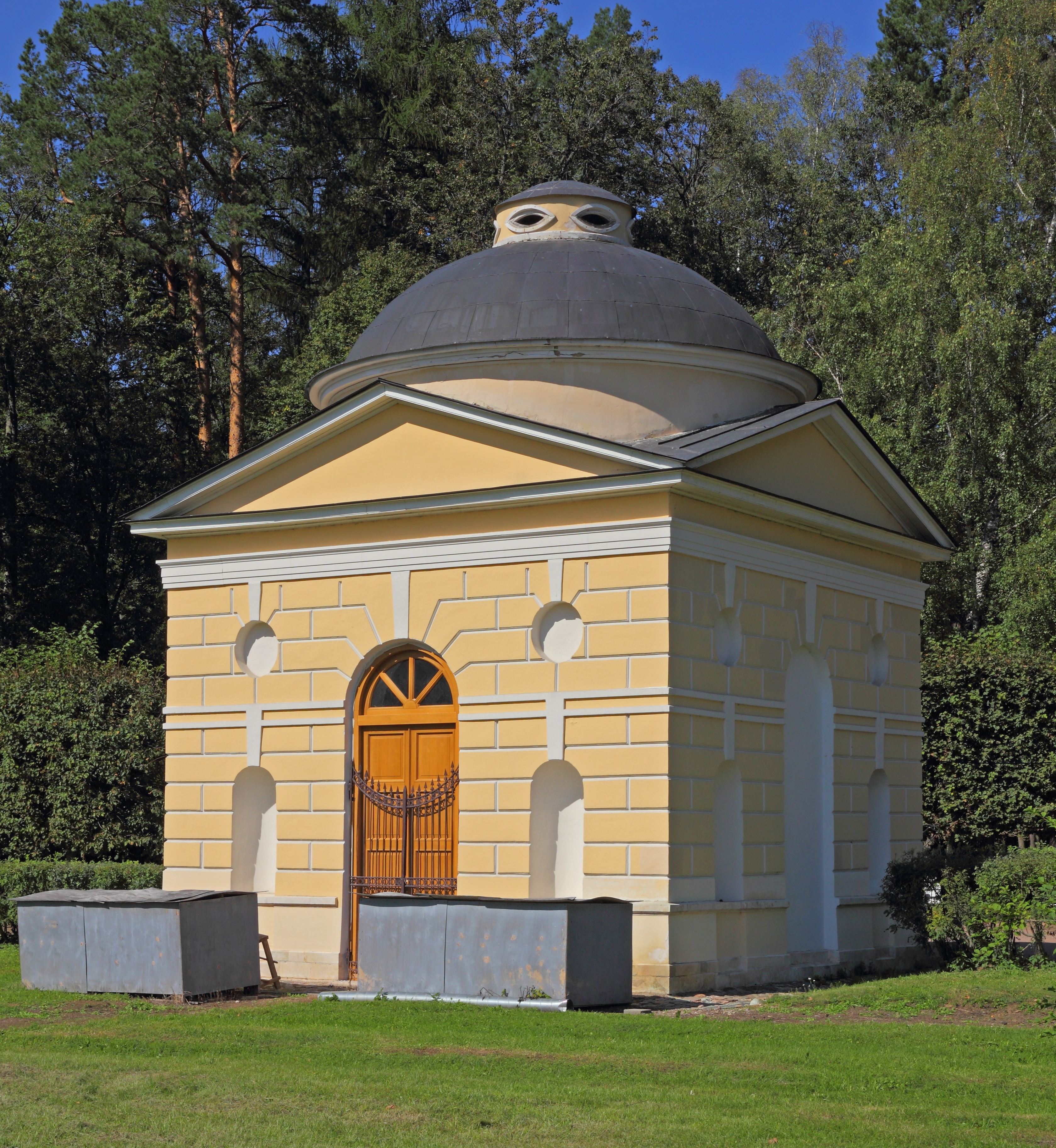 Former Arkhangelskoe Estate in Krasnogorsky District of Moscow Oblast, Russia. Tea House.